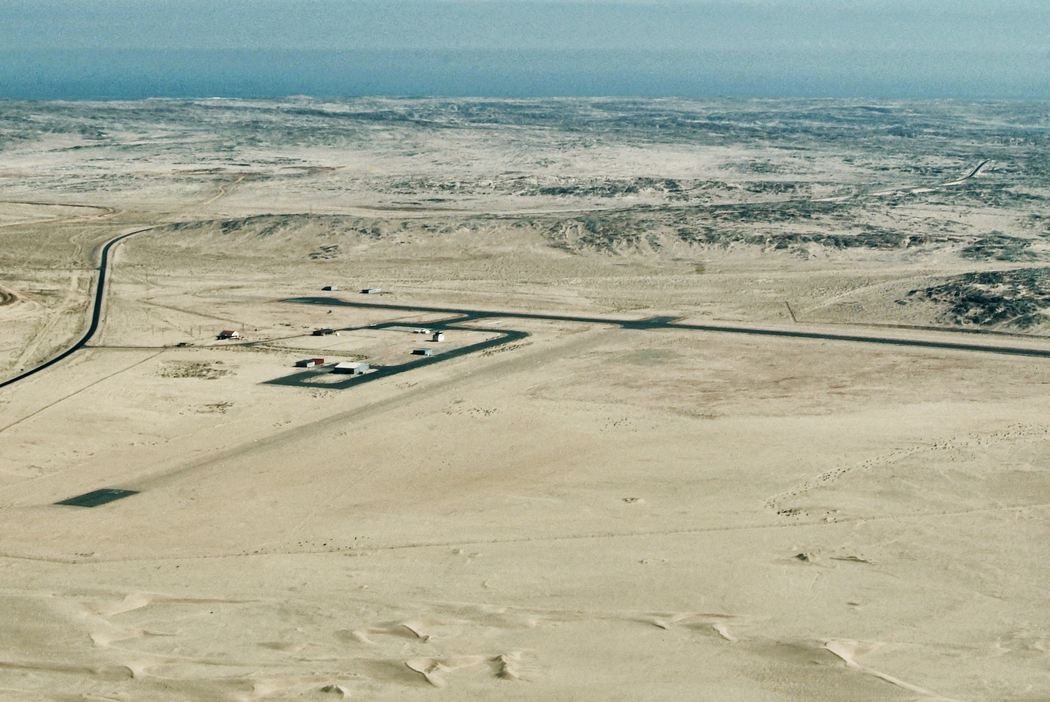 Lüderitz Airport, Namibia, Aerial view